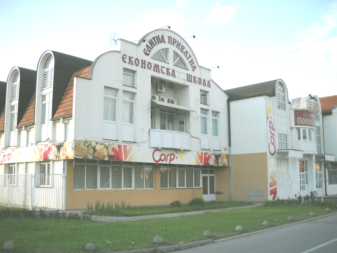 Elite private economical school in Jugovićevo neighborhood in Novi Sad.